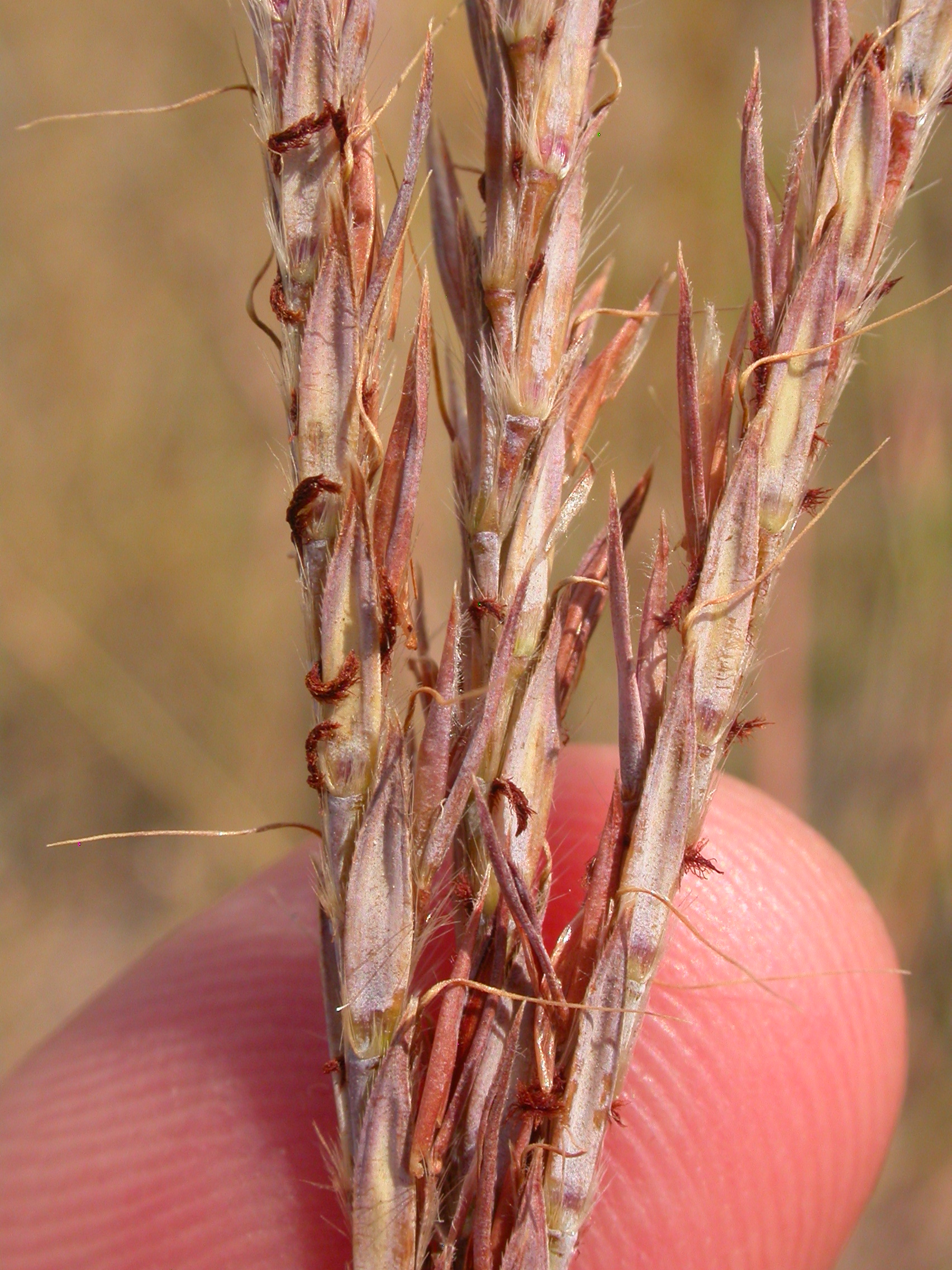 The linear spikes of spikelet pairs are themselves arranged in a subdigitate fashion. When three spikes predominate at the end of a branch, a turkey foot appearance is approximated, thus rendering one of the common names of this species.